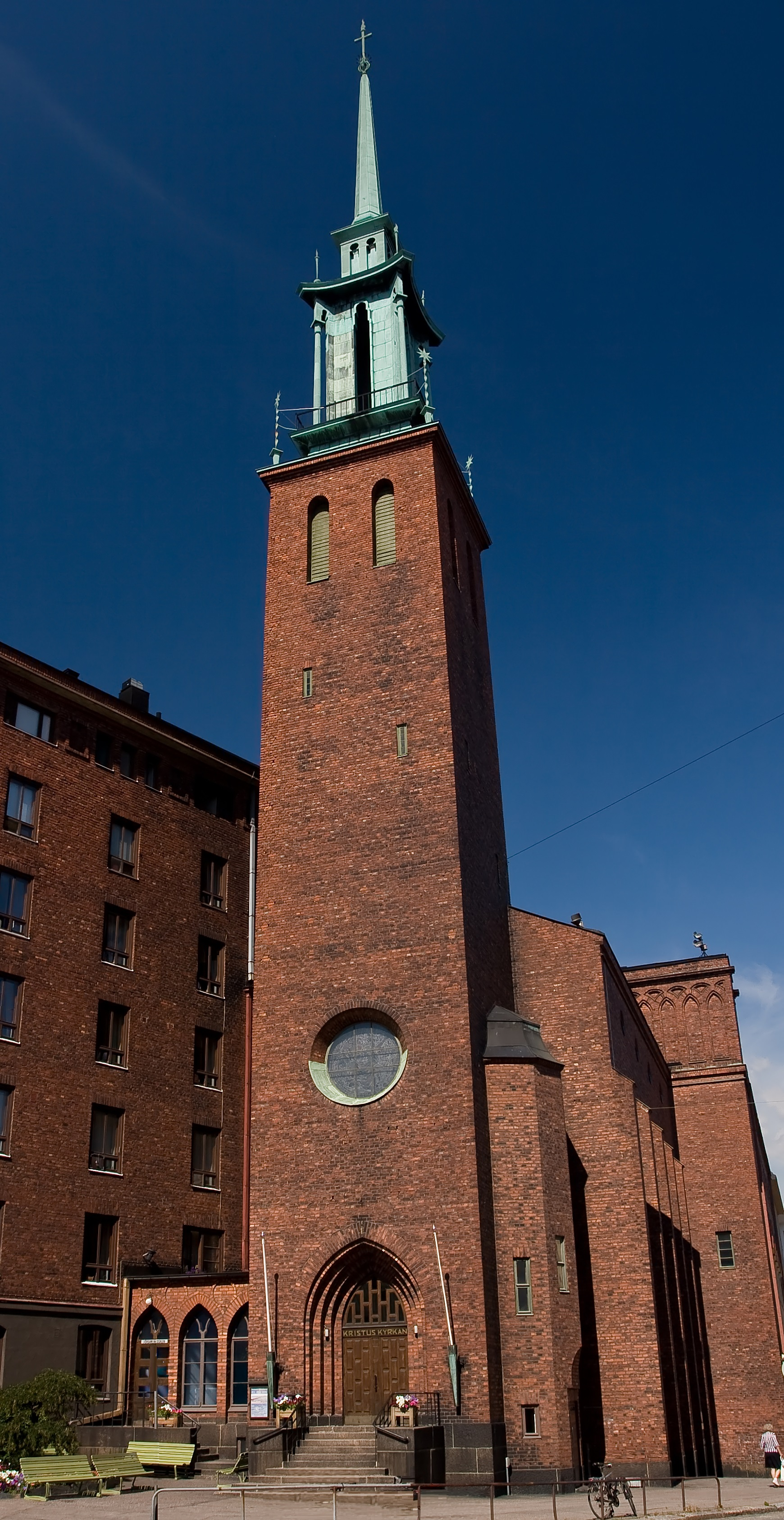 The Methodist Church of the Swedish Congregation on Helsinki - Kristus Kyrkan (built 1927-1928)